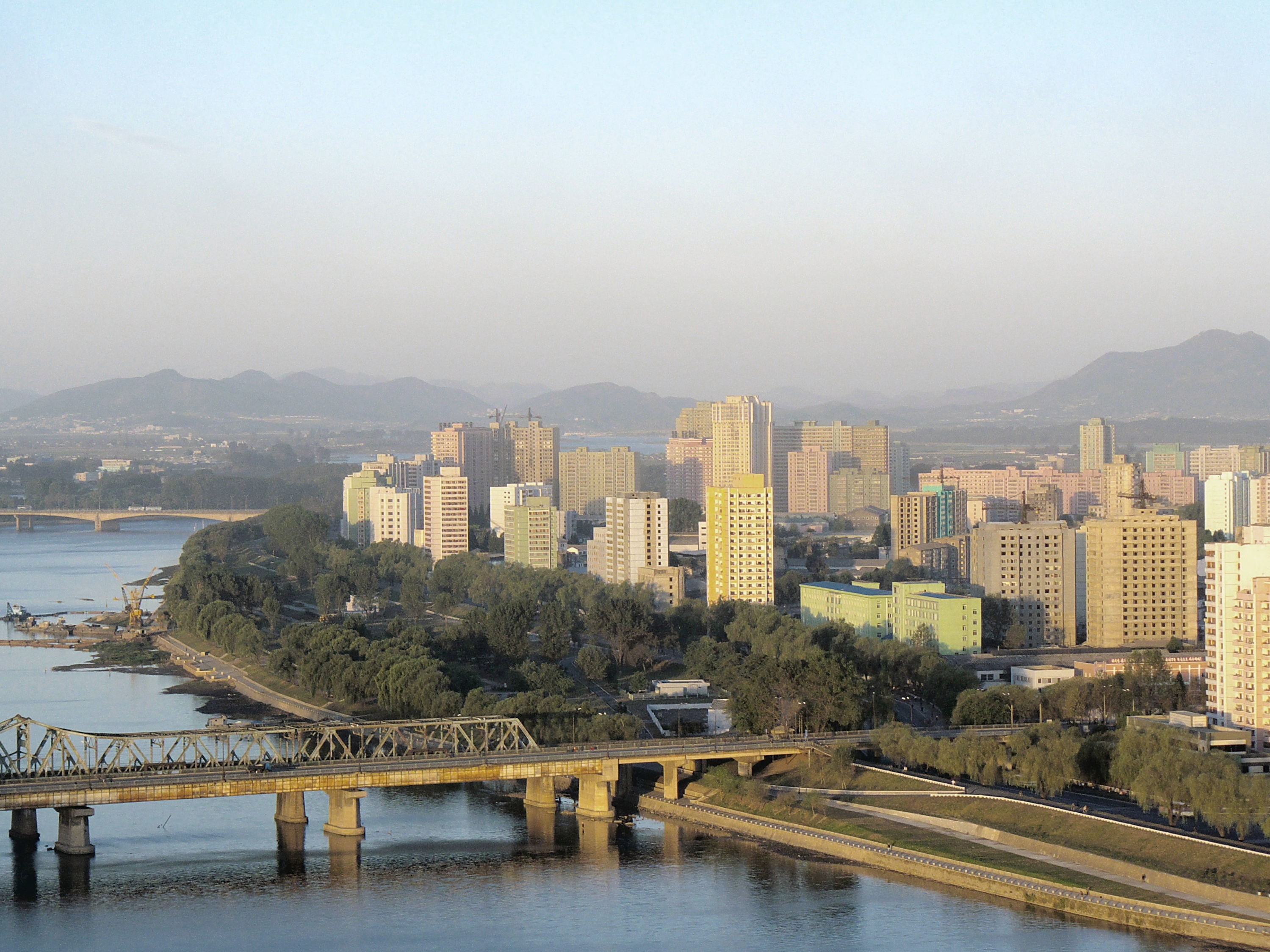 The showcase capital, Pyongyang is truly one of a kind. Ravaged by successive wars, the Pyongyang you see today is the result of centrally planned postwar reconstruction. As a result the city is incredibly ordered and immaculately clean. The city is also refreshingly unpolluted, there are hardly any vehicles on the roads and smoke belching factories are all banished to the outskirts.